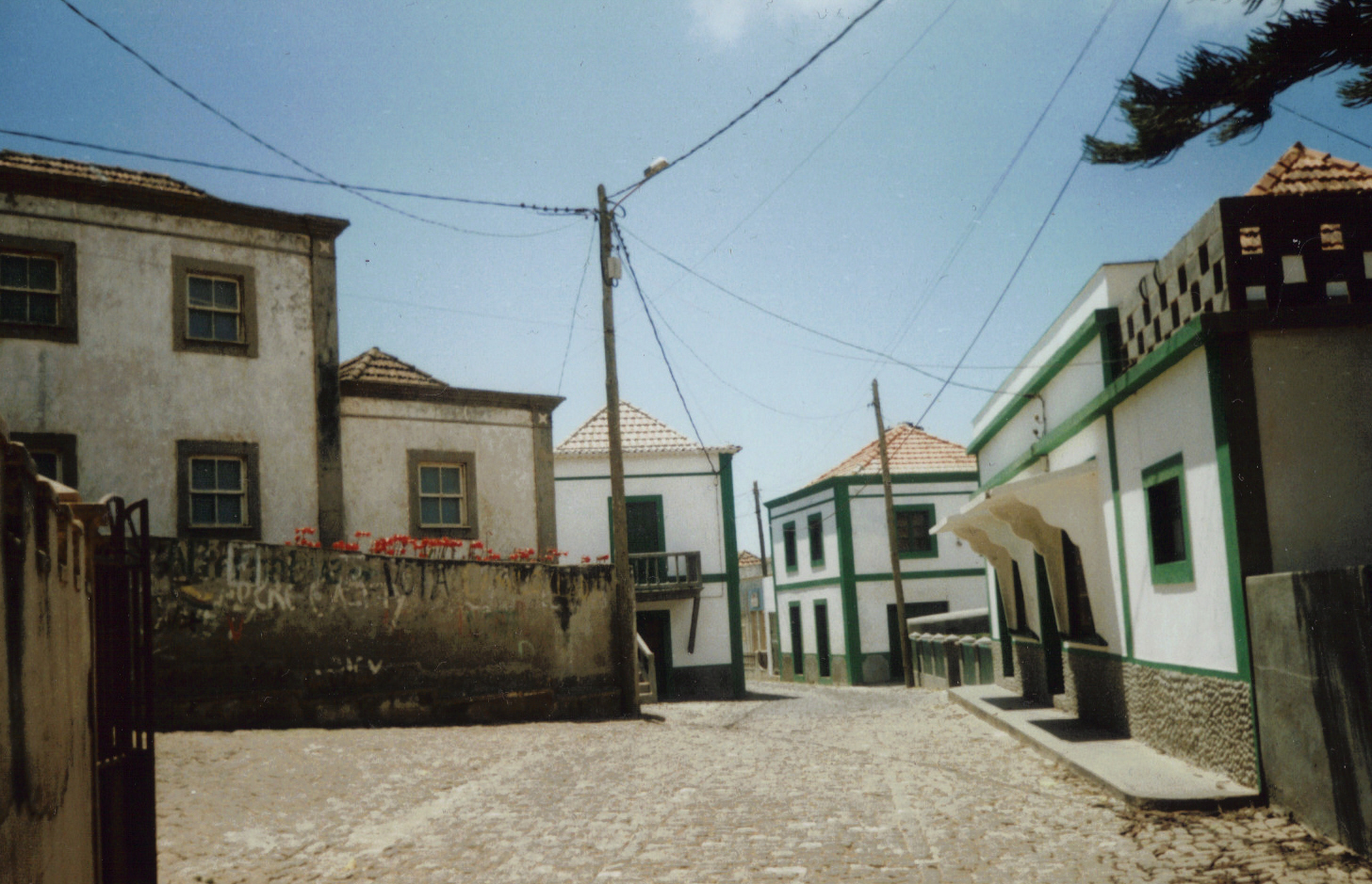 Brava, Cabo Verde: Main Street of Nossa Senhora do Monte.